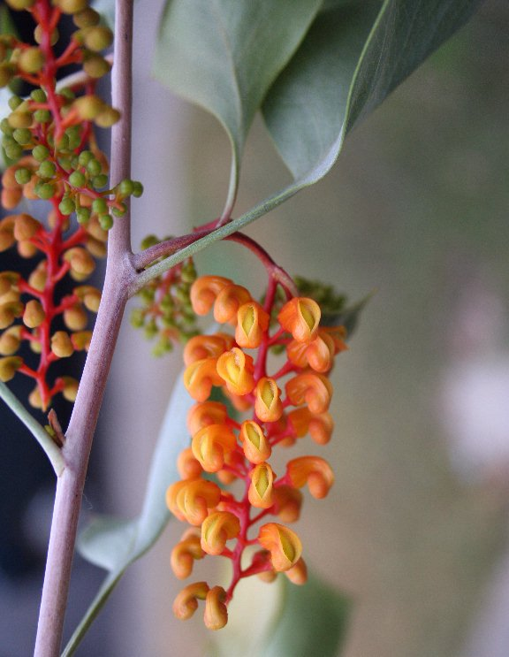 Grevillea wickhamii aprica grafted by Mark Ross grown on Sydney clay Photo: Cas Liber